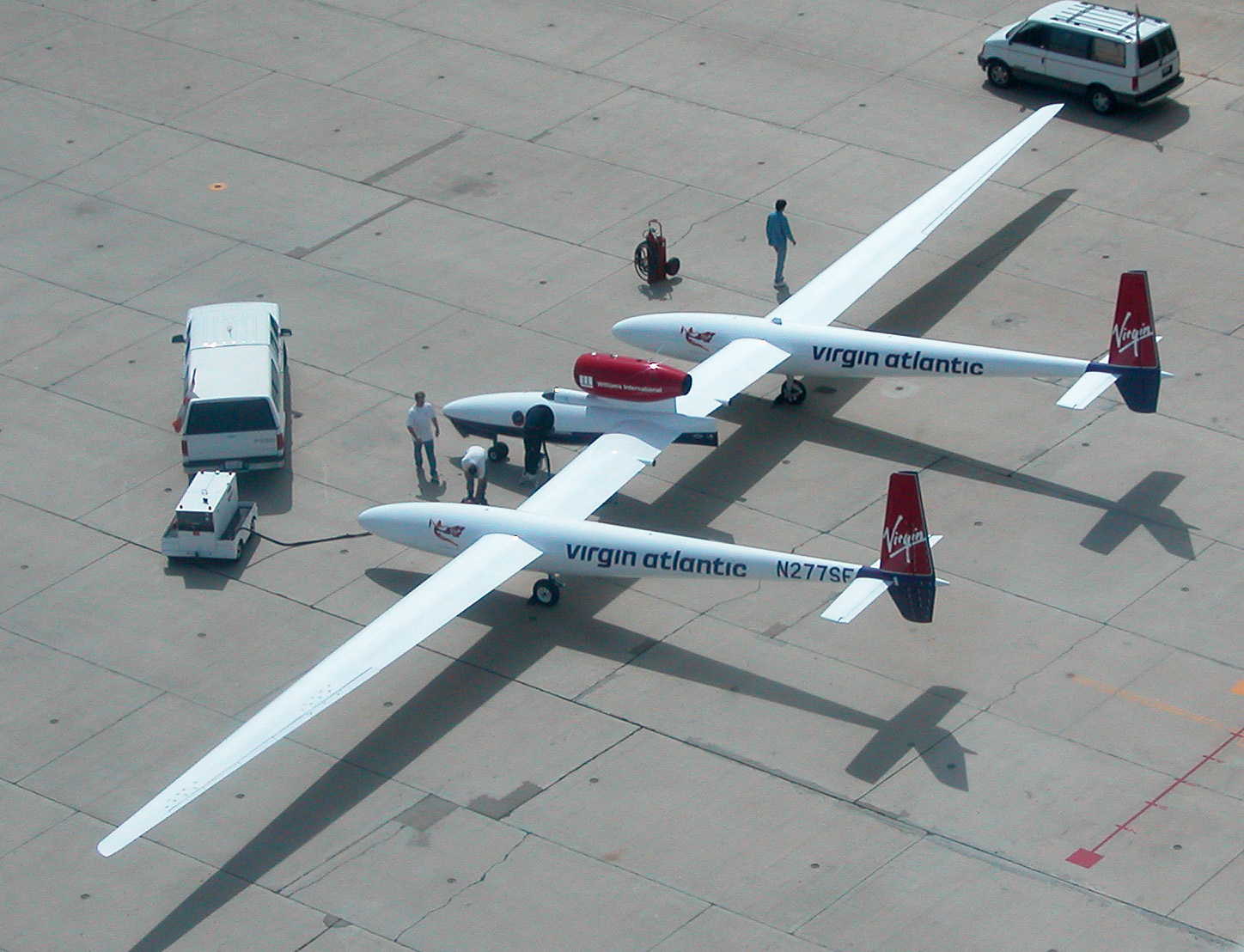 Virgin Atlantic GlobalFlyer at the Mojave Spaceport